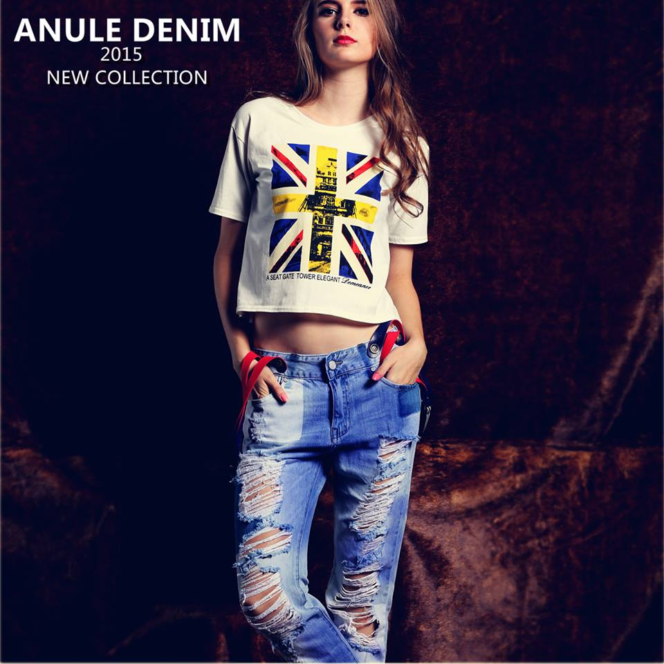 Anule denim boyfriend ripped destroyed jeans